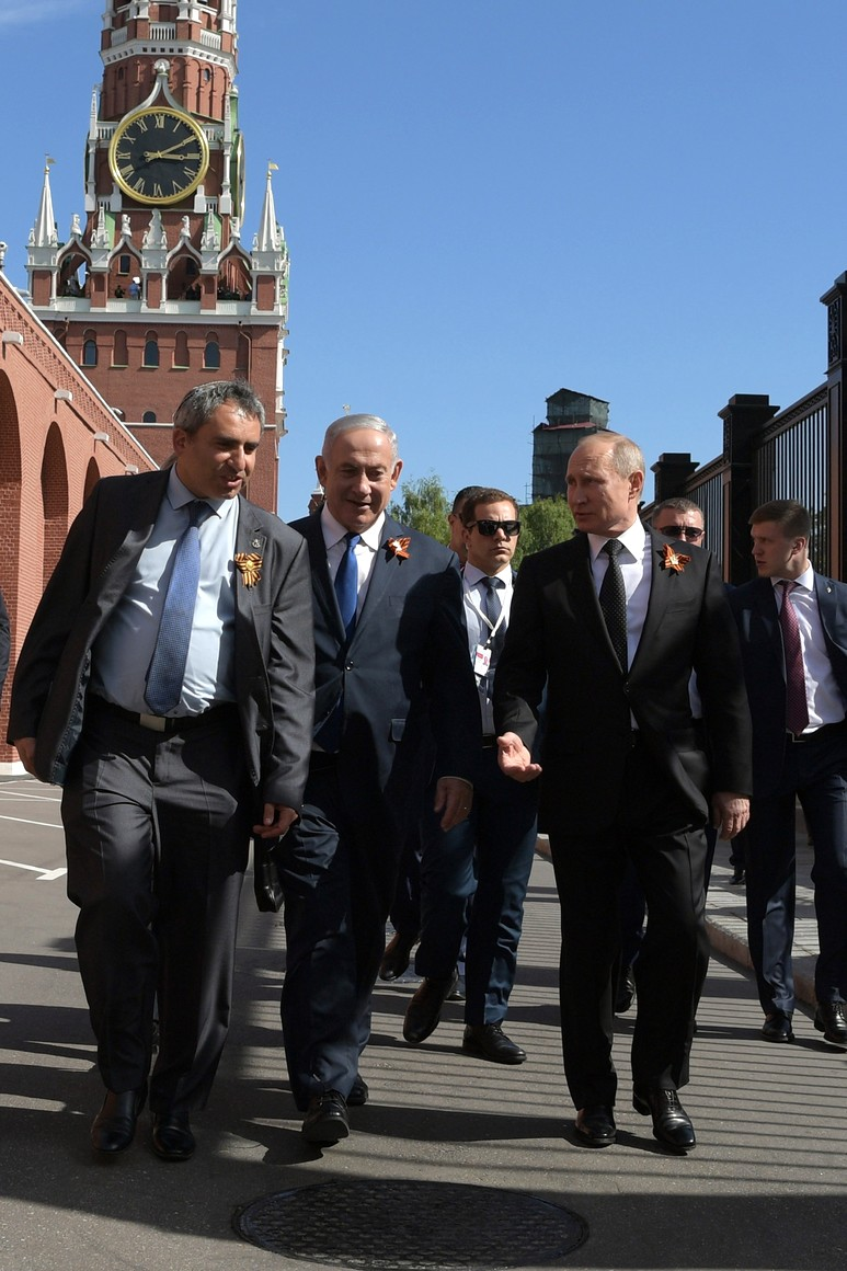 Immortal Regiment in Moscow (2018-05-09)